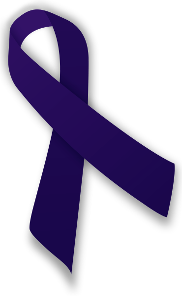 Indigo Awareness Ribbon